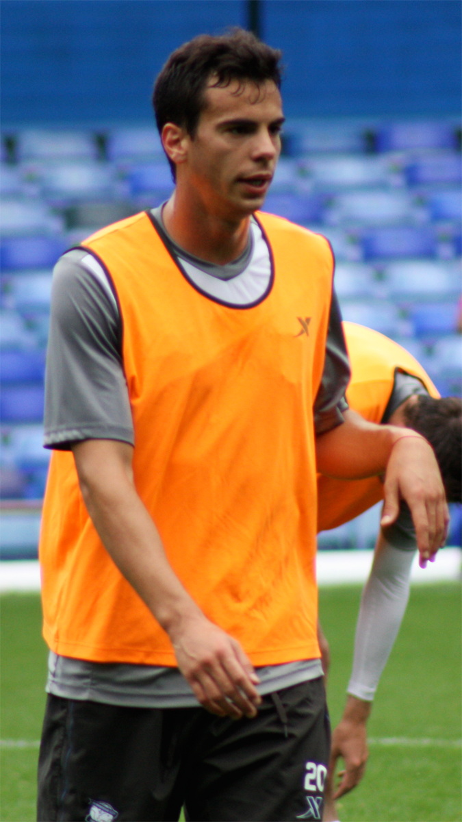 Enric Valles at Birmingham City open training session at St.Andrews' Stadium.